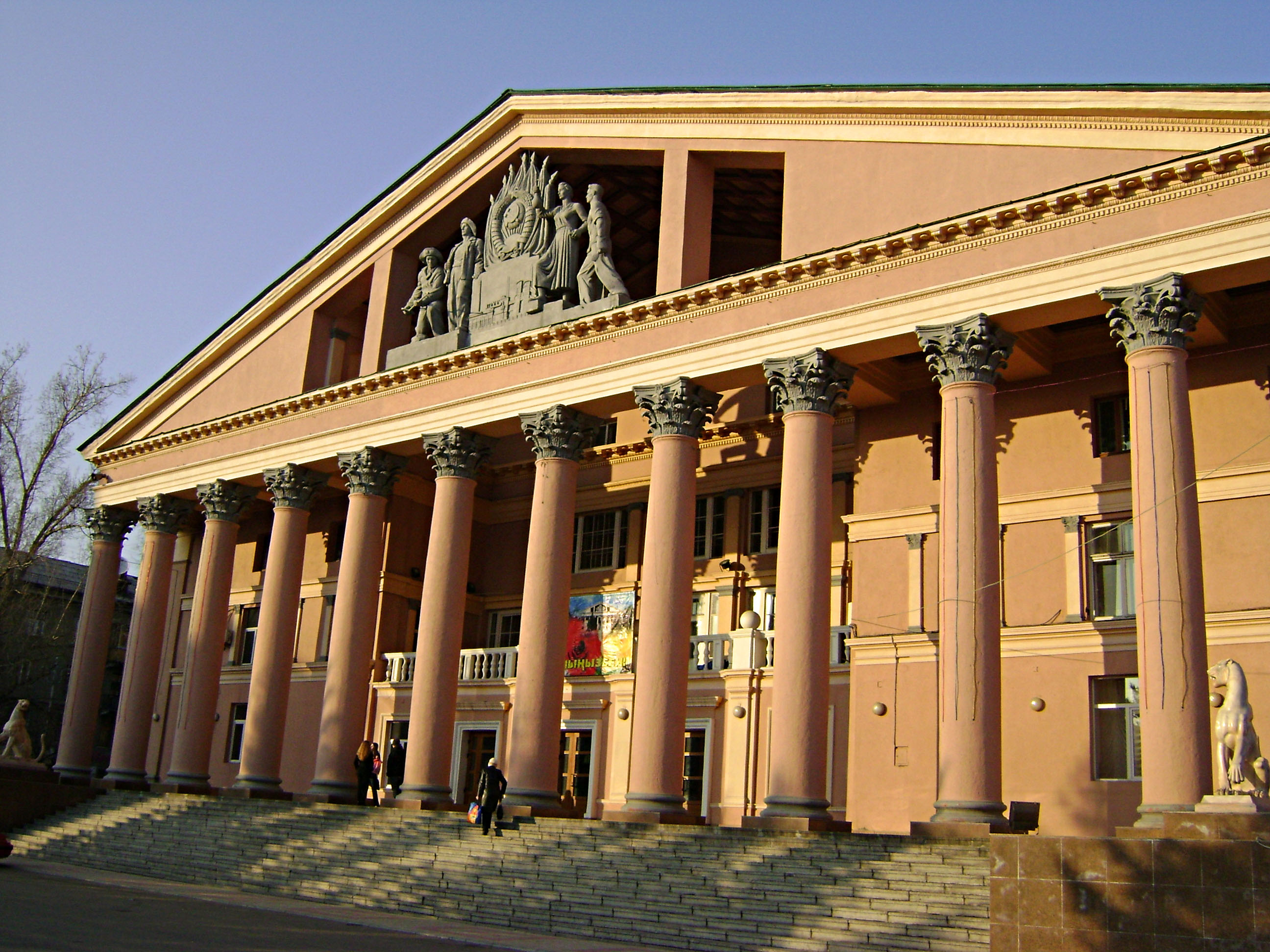 Oskemen, Kazhakstan: Palace of Culture